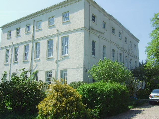 Styche Hall This is now apartments, which are up for sale, so I went for an outside viewing.